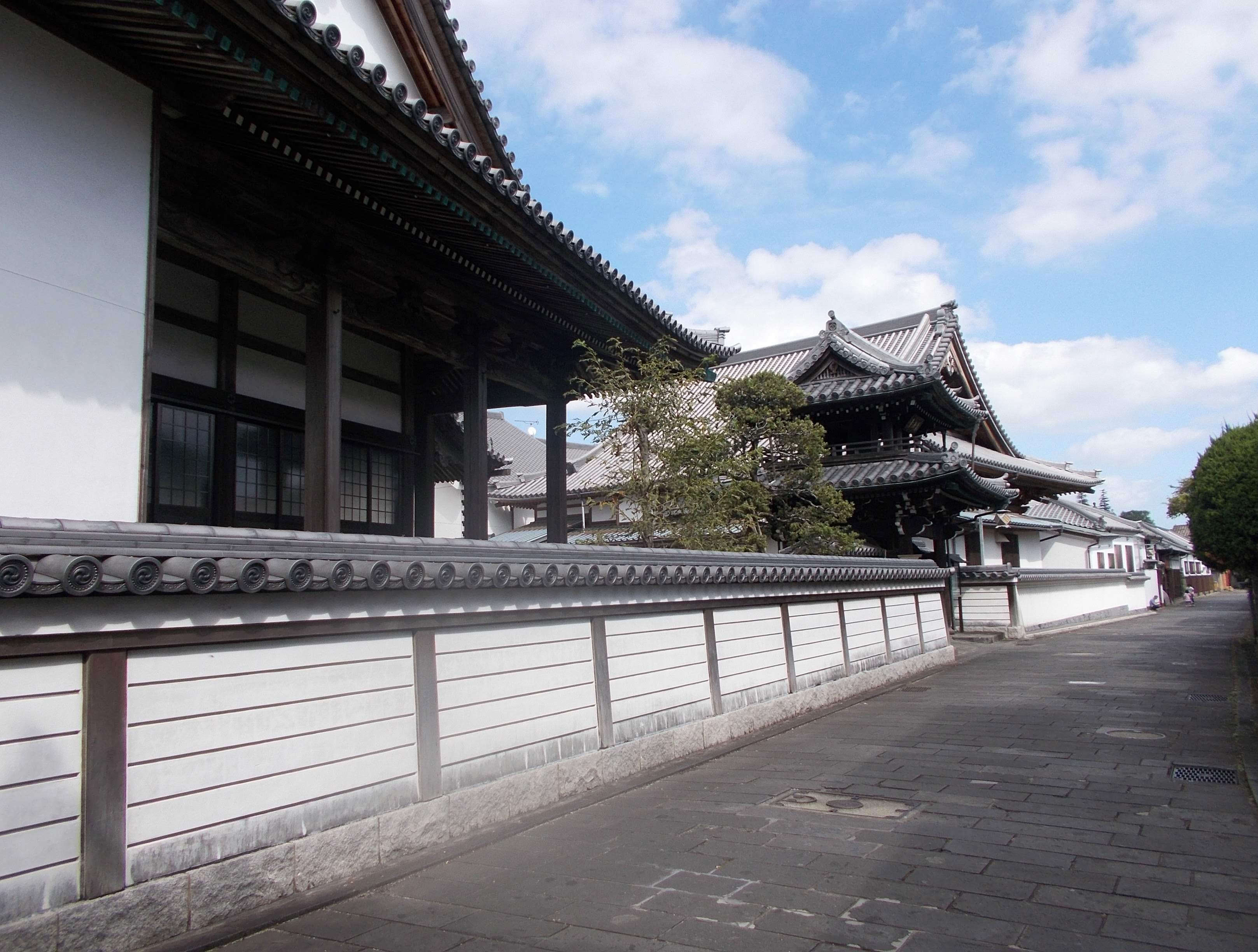 Nioza Historical Road, Usuki, Oita, Japan